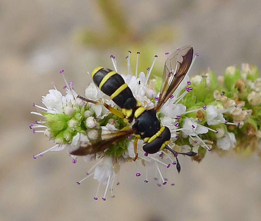 Ceriana vespiformis. Conopid Fly. Syrphidae